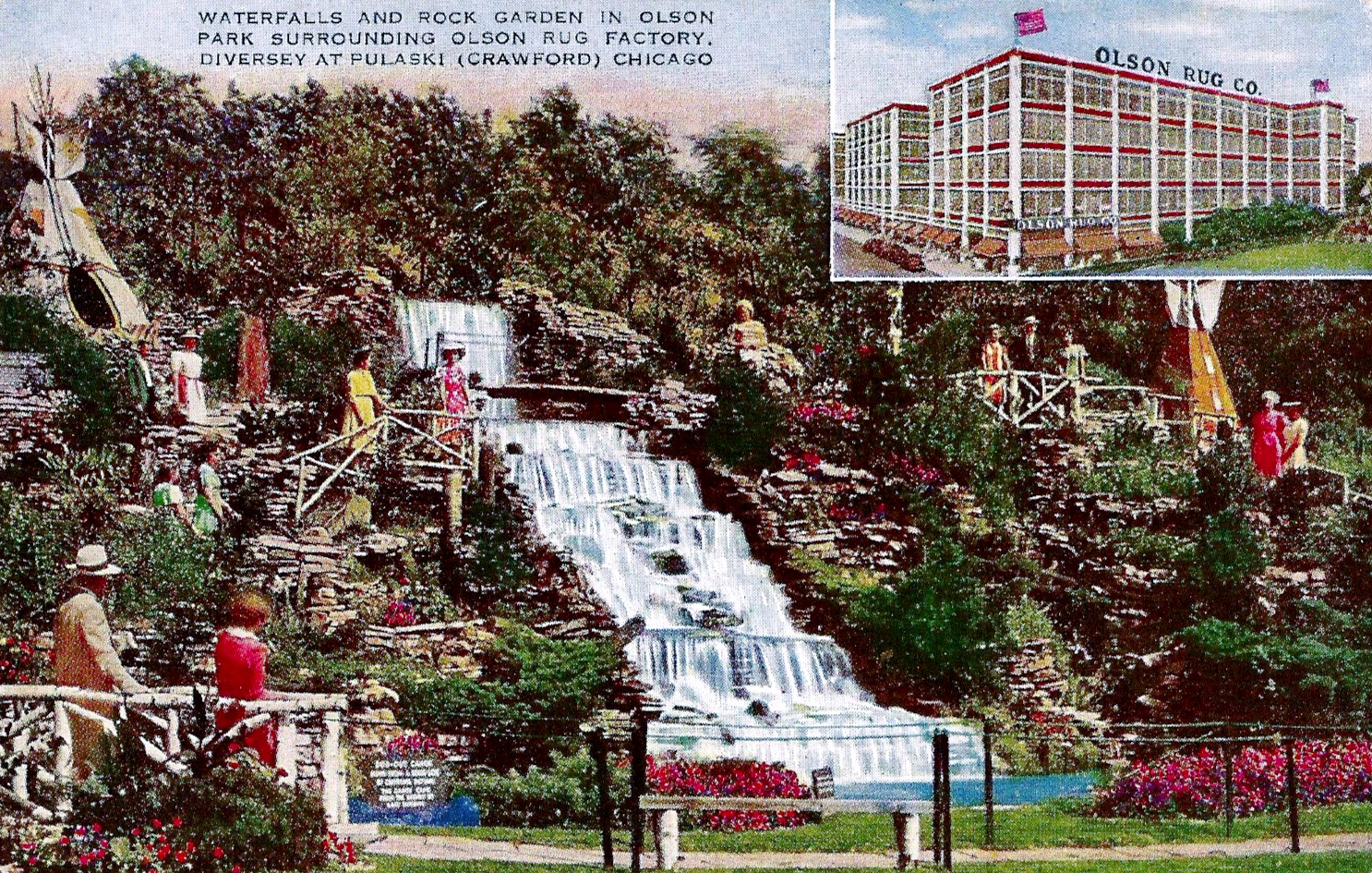 Postcard photo of Olson Park and Waterfall in Chicago.